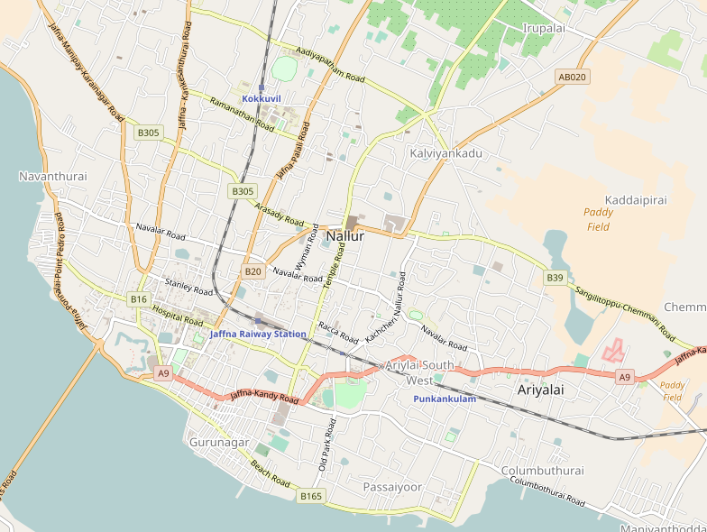 Map of greater Jaffna, Sri Lanka. This map of Jaffna was created from OpenStreetMap project data, collected by the community. This map may be incomplete, and may contain errors. Don't rely solely on it for navigation.